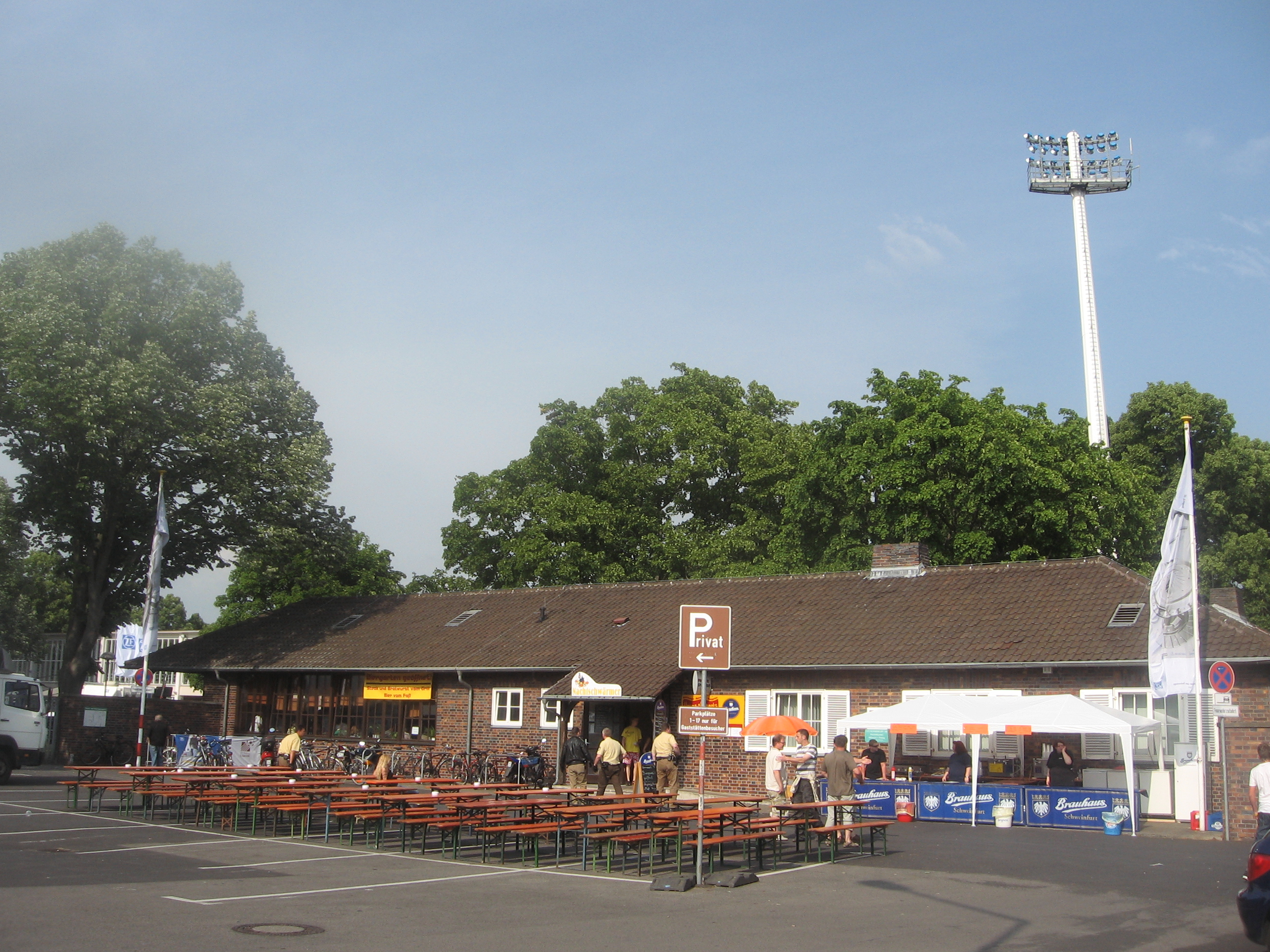 Stadium of "1. FC Schweinfurt 05", Schweinfurt, Germany.